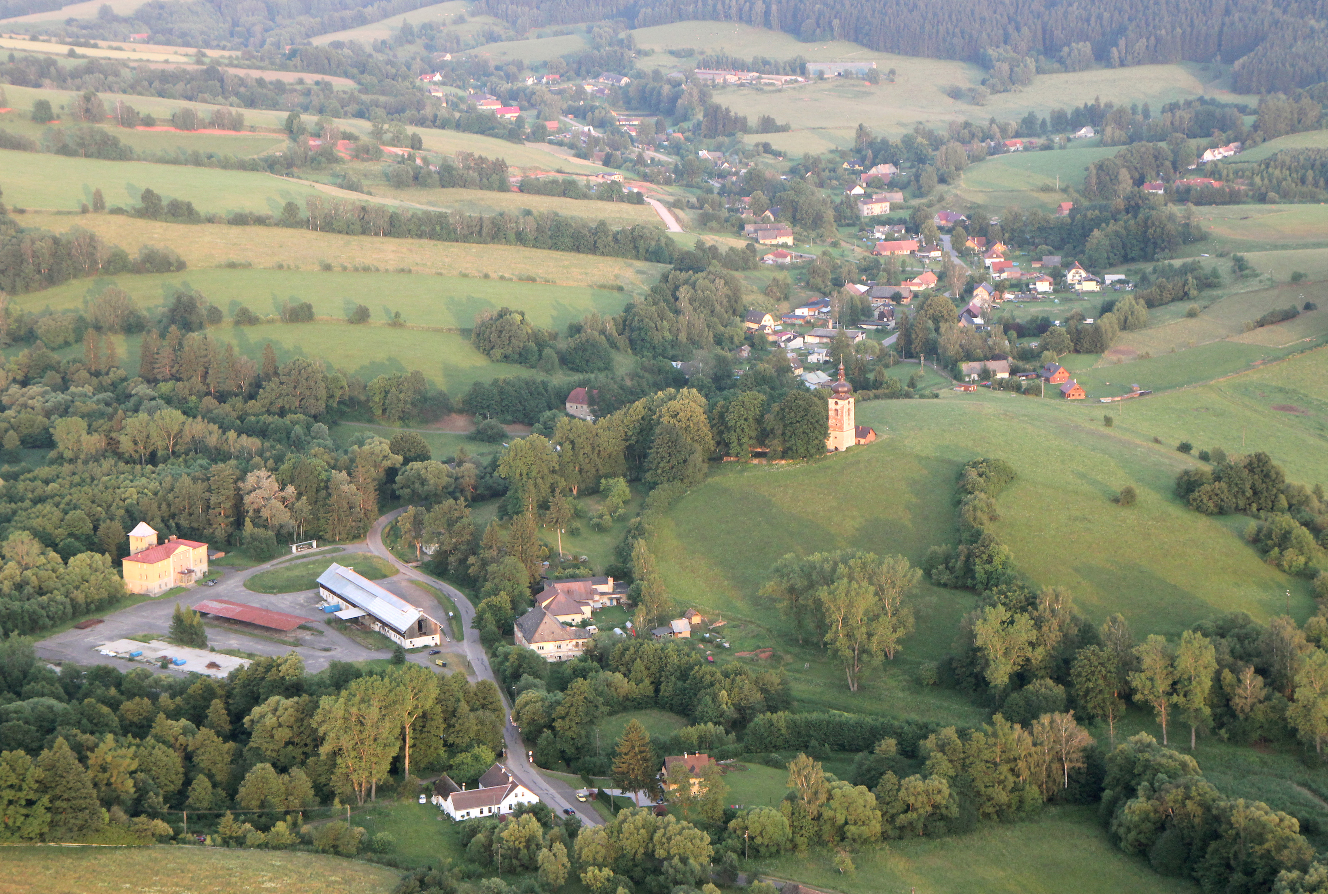 aerial photo